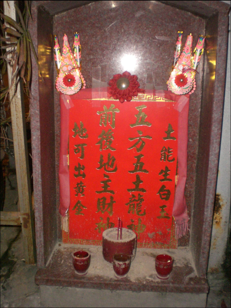 神主牌